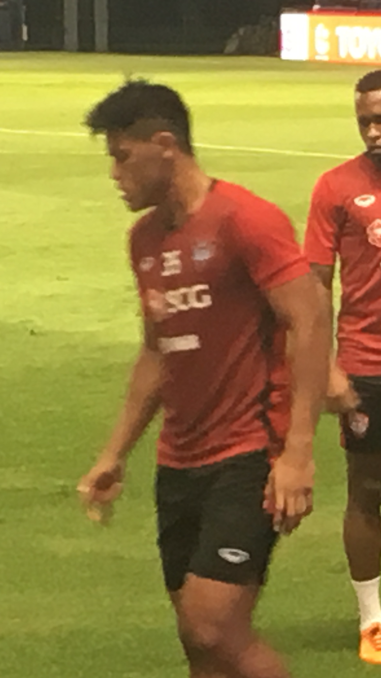 Siroch training with Muangthong United againts Buriram United 04-05-2018